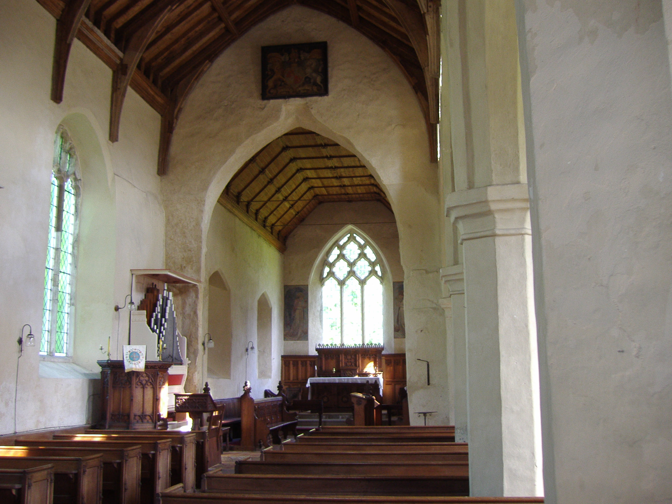 Saint Bartholomews Parish Church, Hanworth, Norfolk